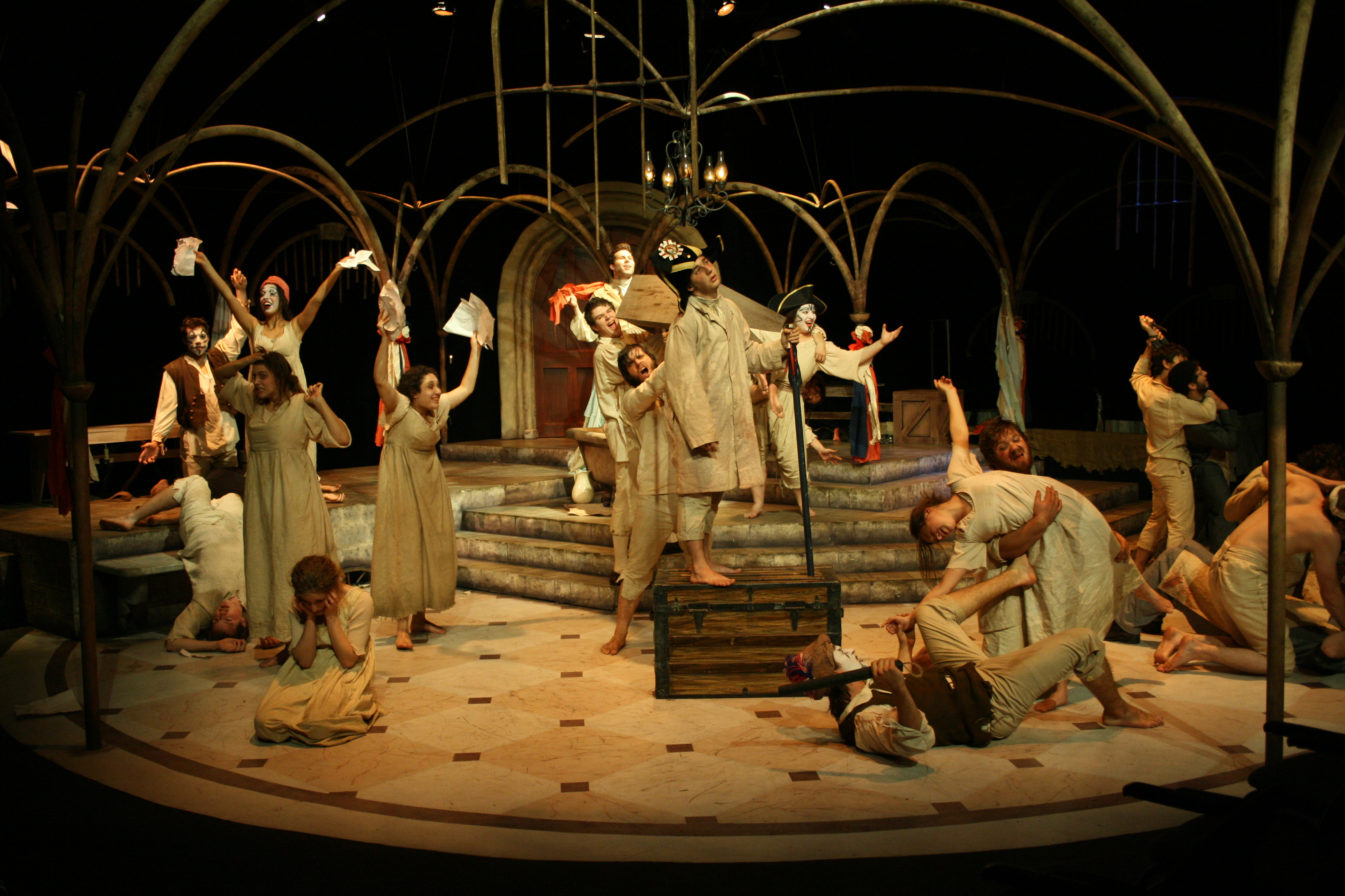 Theatre production of Peter Weiss' “The Persecution and Assassination of Jean-Paul Marat as Performed by the Inmates of the Asylum of Charenton Under the Direction of the Marquis de Sade” (“Marat/Sade”) at the Department of Theatre and Dance-SUNY-Fredonia, October 2008. Directed by: James Ivey. Set Design: Greg Kaye. Lighting Design: Melissa Trinidad. Costume Design: Ashley Arnone.